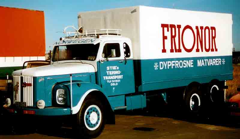 Scania-Vabis LS75 Truck